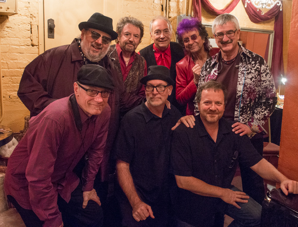 The Ides of March, December 2015